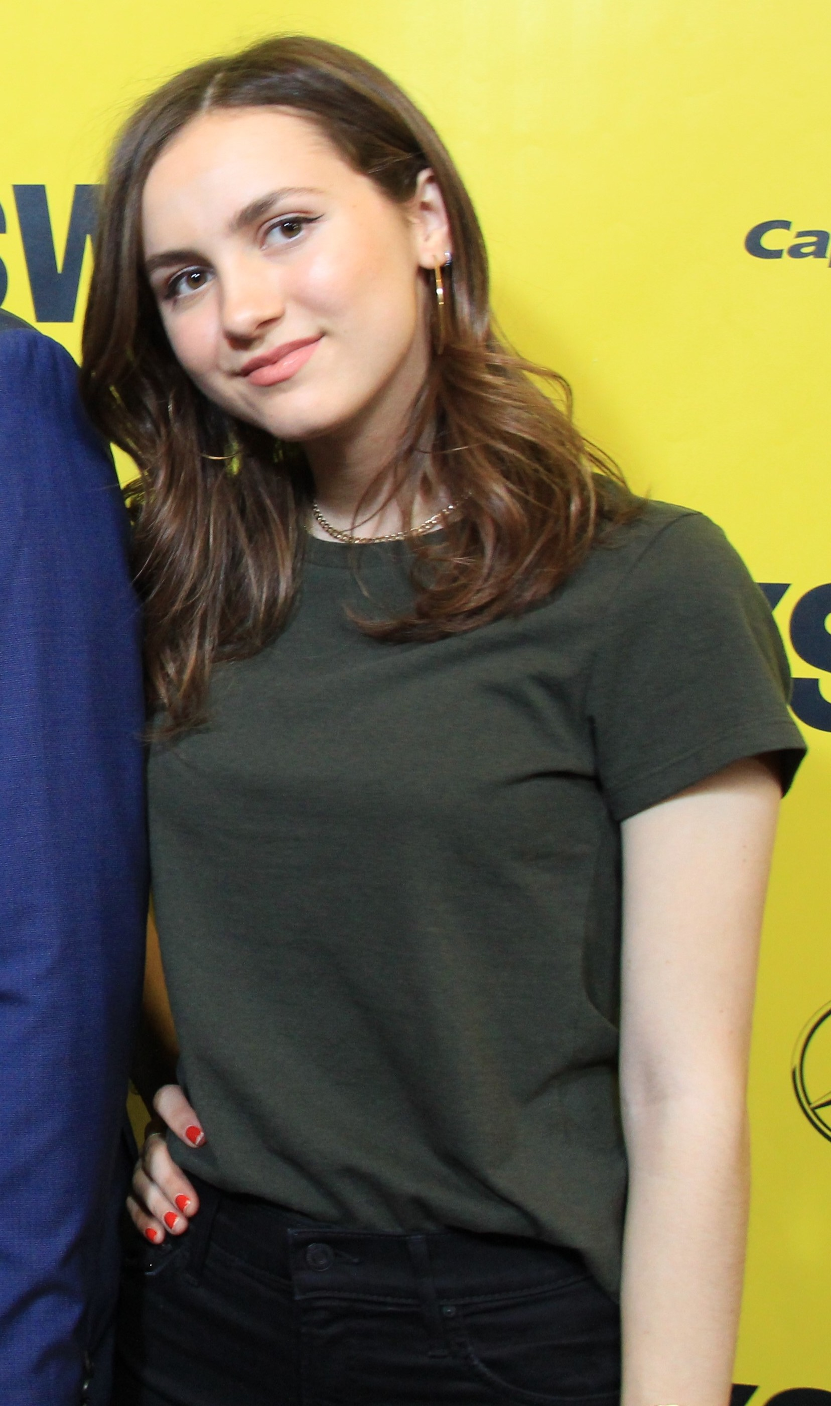 Leslie Mann, Iris Apatow, Maude Apatow and Judd Apatow at SXSW Red Carpet premiere of BLOCKERS